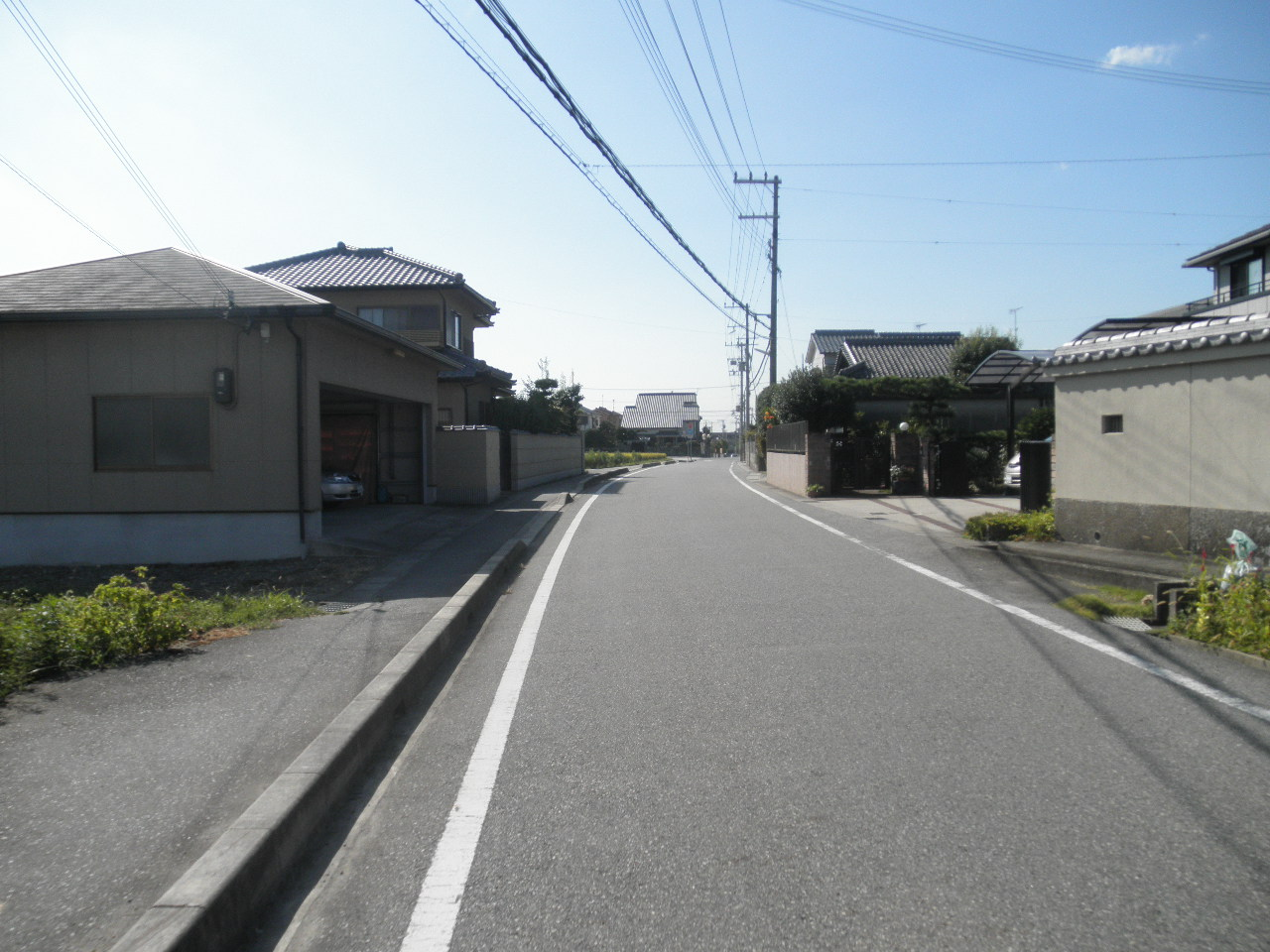 SHijimitown Hirono1 Mikicity Hyogopref